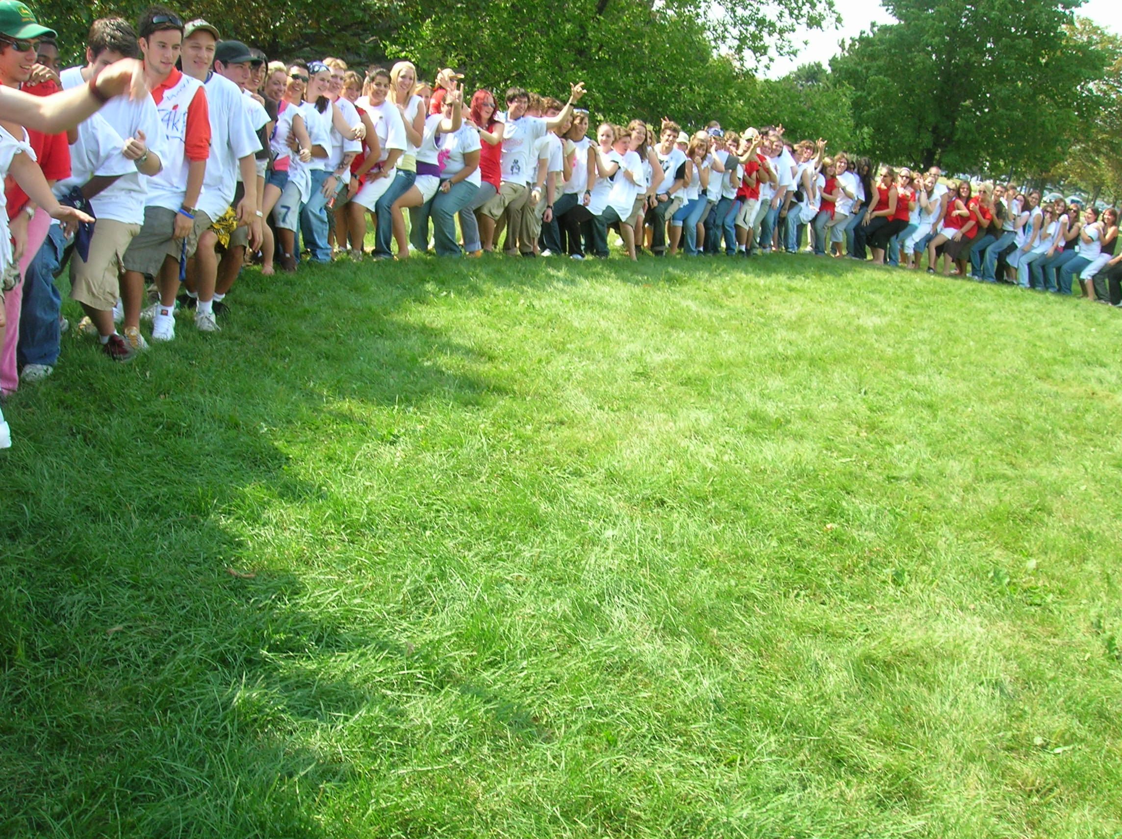 Winters Frosh Week 2006, Description: Winters frosh playing icebreakers Source: Own work Date: 28 August 2006 Permission: Own work